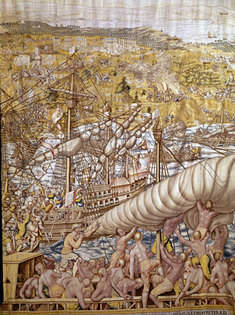 Capture of Tunis 1535 liberation of 20000 Christian captives